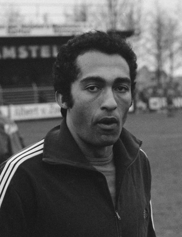 Walter Ferreira in 1971.